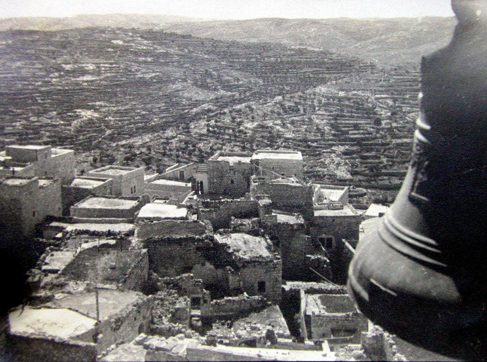 Bethlehem, 1942.